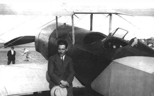 the Vecihi XIV constructed by Vecihi Hürkuş in 1930, despite extreme resistance from Turkish authorities